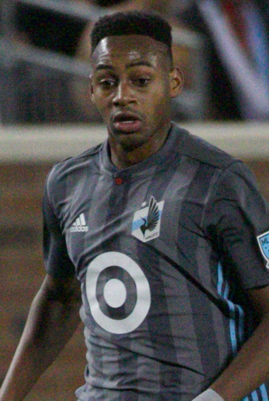 Mason Toye Minnesota United - Houston Dynamo - TCF Bank Stadium - Minneapolis - MLS